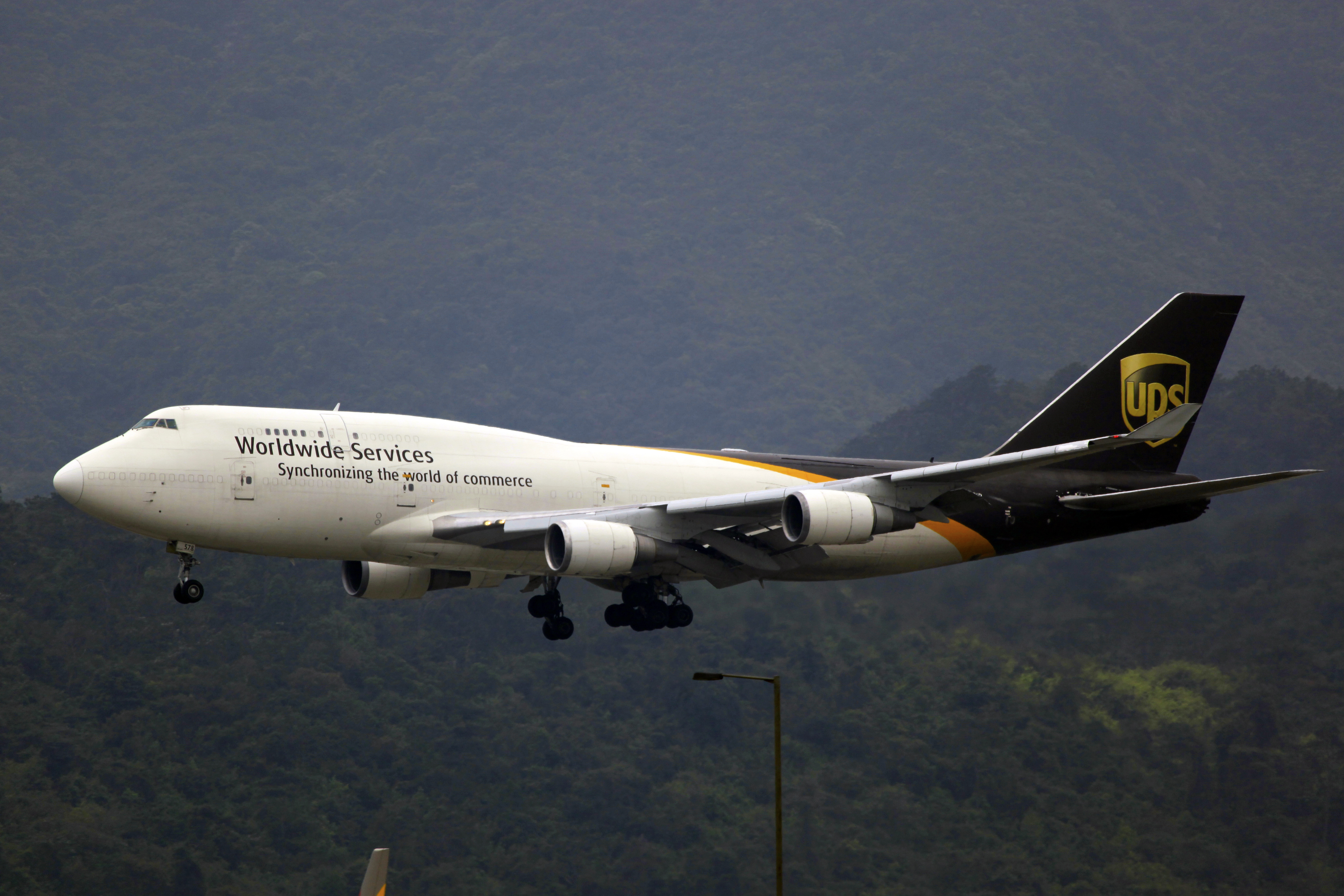 N578UP | United Parcel Service (UPS) | Boeing 747-45E(BCF) | Hong Kong Chek Lap Kok International Airport [HKG]